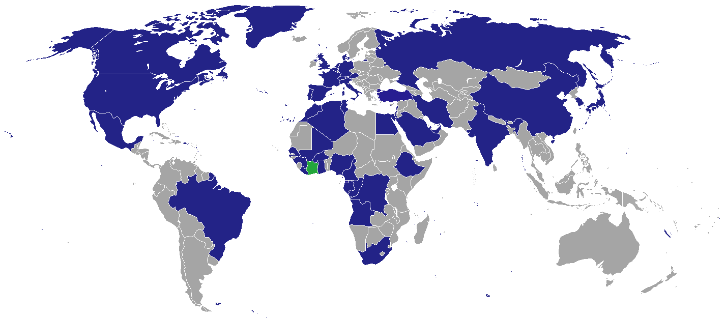 Map of diplomatic missions of Côte d'Ivoire